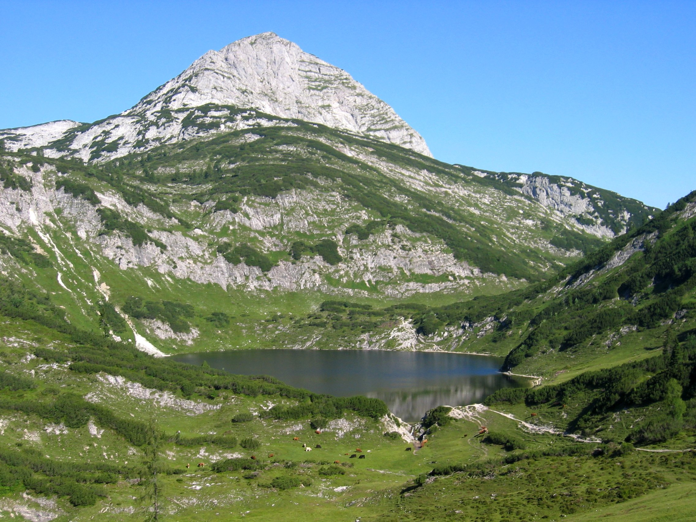 Wildensee, Totes Gebirge, Austria